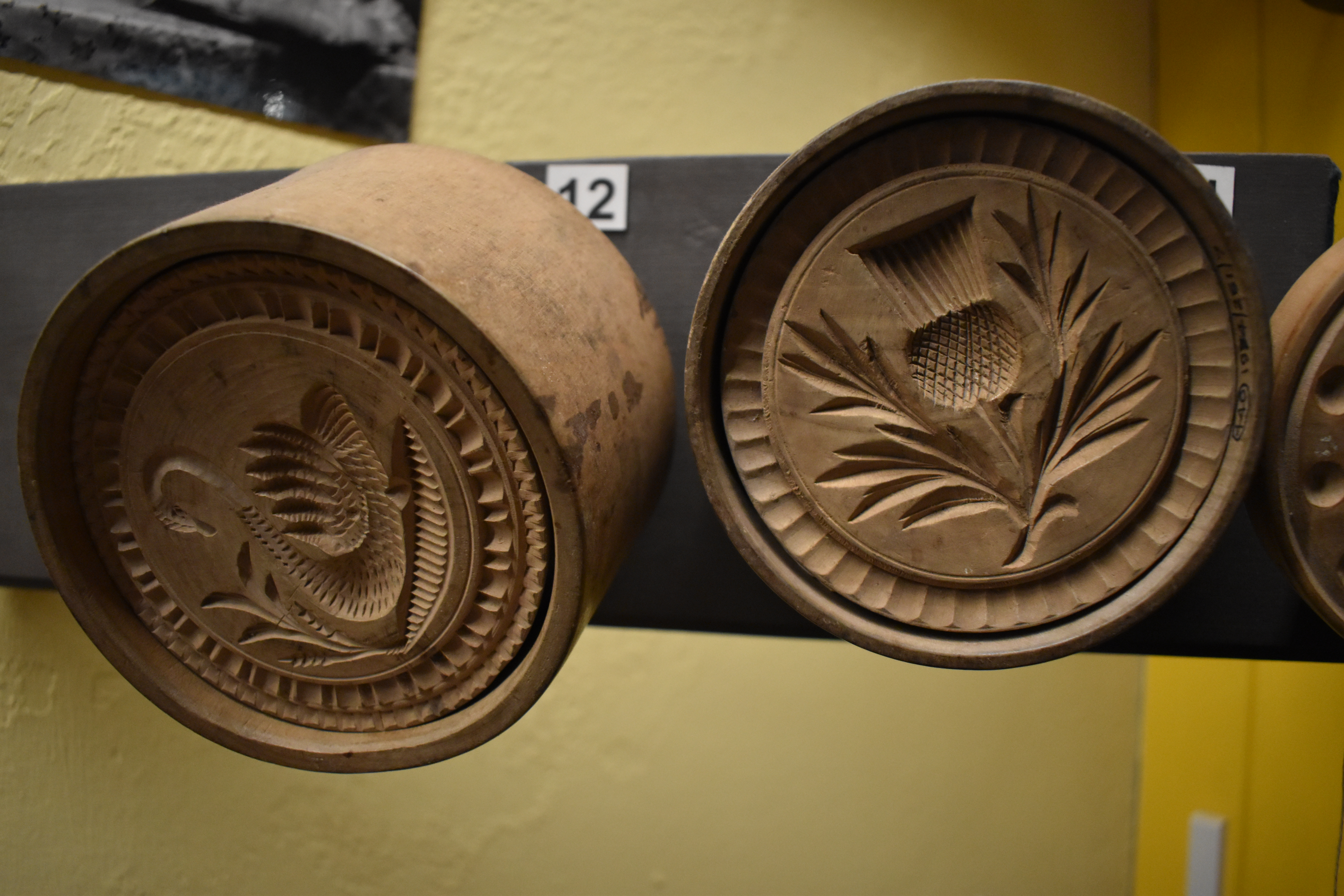 Carved butter stamps at the Ceredigion Museum in 2018.